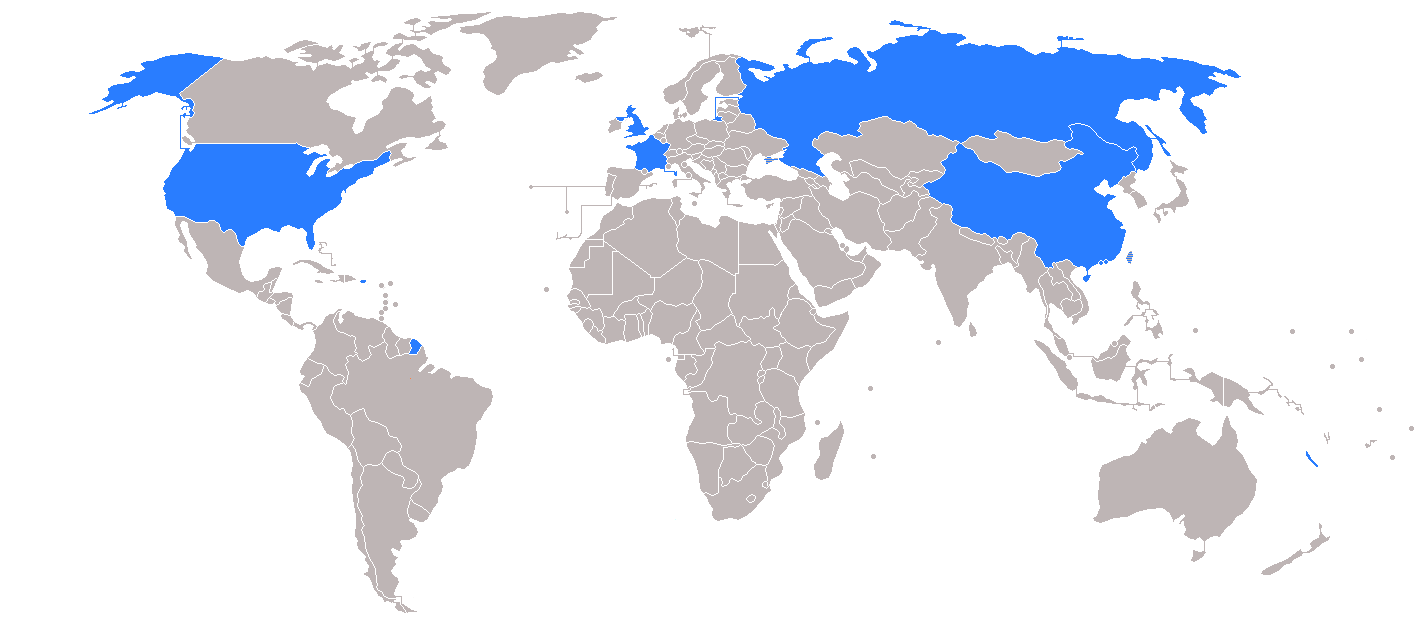 The permanent members of the United Nations Security Council.